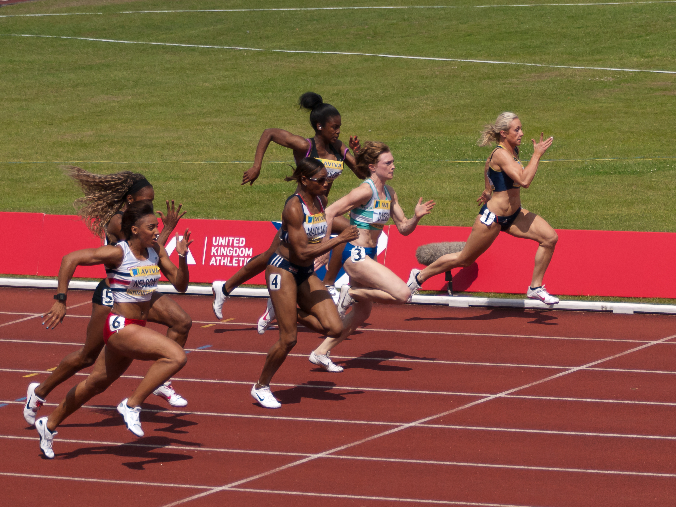 Runners in Heat 1 of the Womens 100m Semi-Final at the Aviva 2010 UK Athletics Championships and European Trials at the Alexandra Stadium in Birmingham. Participants: 1 Annabelle LEWIS 2 Marylyn NWAWULOR 3 Elaine O'NEILL 4 Joice MADUAKA 5 Montell DOUGLAS 6 Ashleigh NELSON 7 Tunrayo NUBI 8 Louise BLOOR